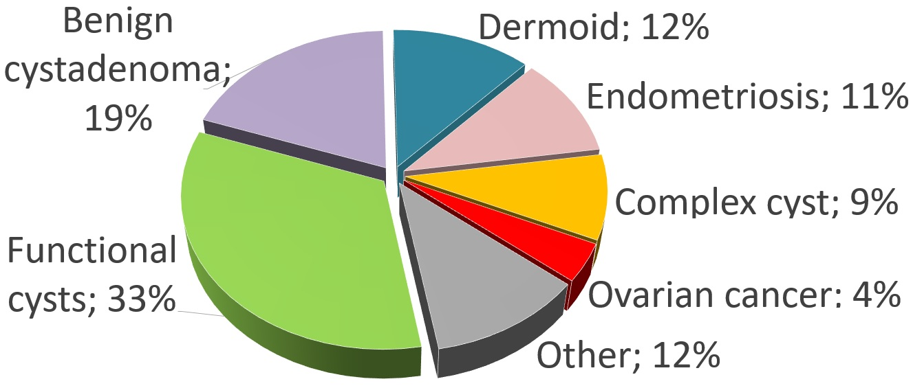 Relative incidences of ovarian cysts, at a department of Obstetrics and gynecology in Saudi Arabia.